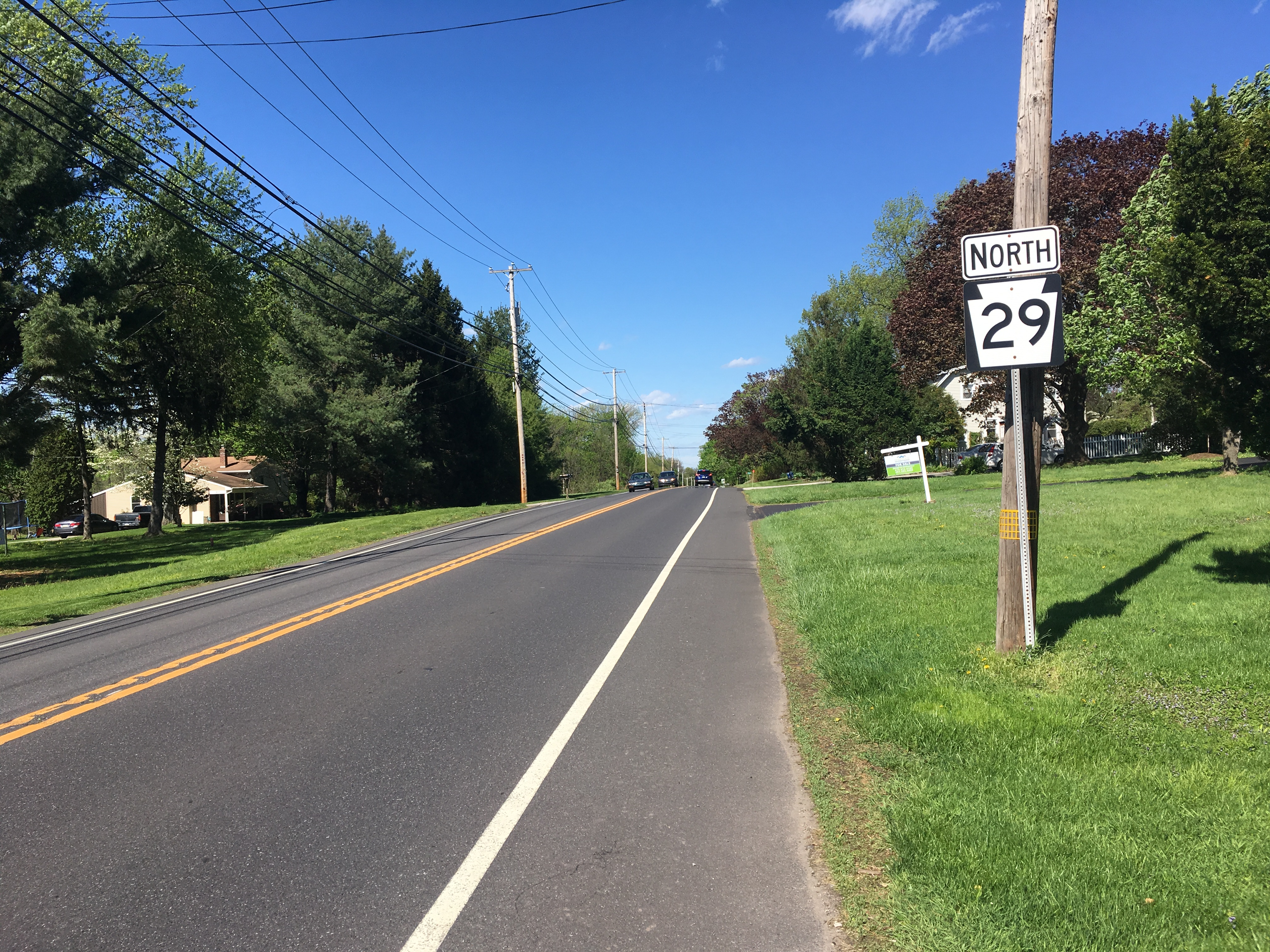 Northbound Pennsylvania Route 29 (Phoenixville-Collegeville Road) past the intersection with Brower Road in Upper Providence Township, Pennsylvania